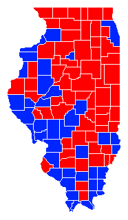 Results by county for the 2002 election of the Attorney General of Illinois